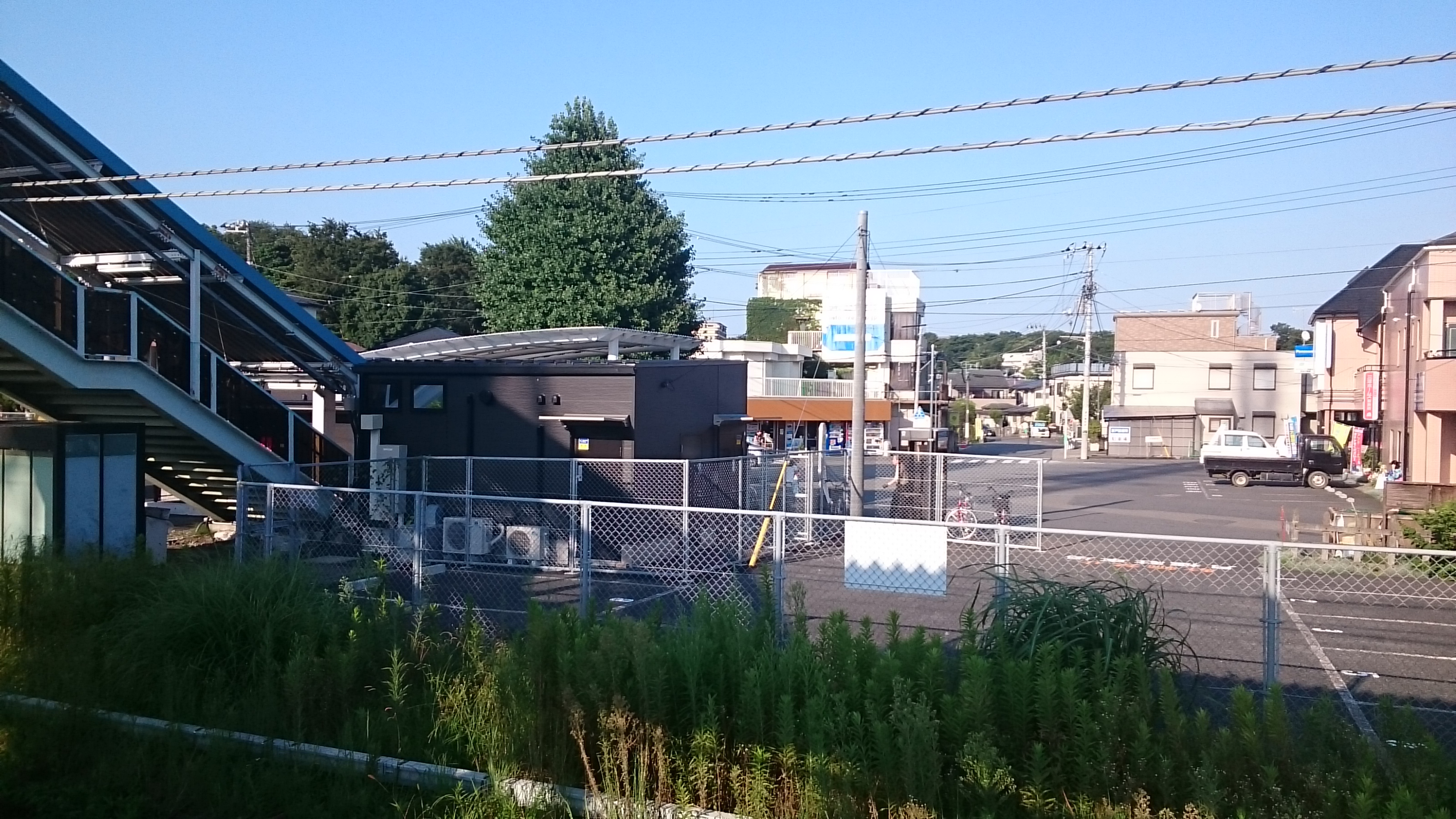 The station forecourt of JR East Sōbudaishita Station on the Sagami Line in Minami-ku, Sagamihara, Kanagawa Prefecture, Japan